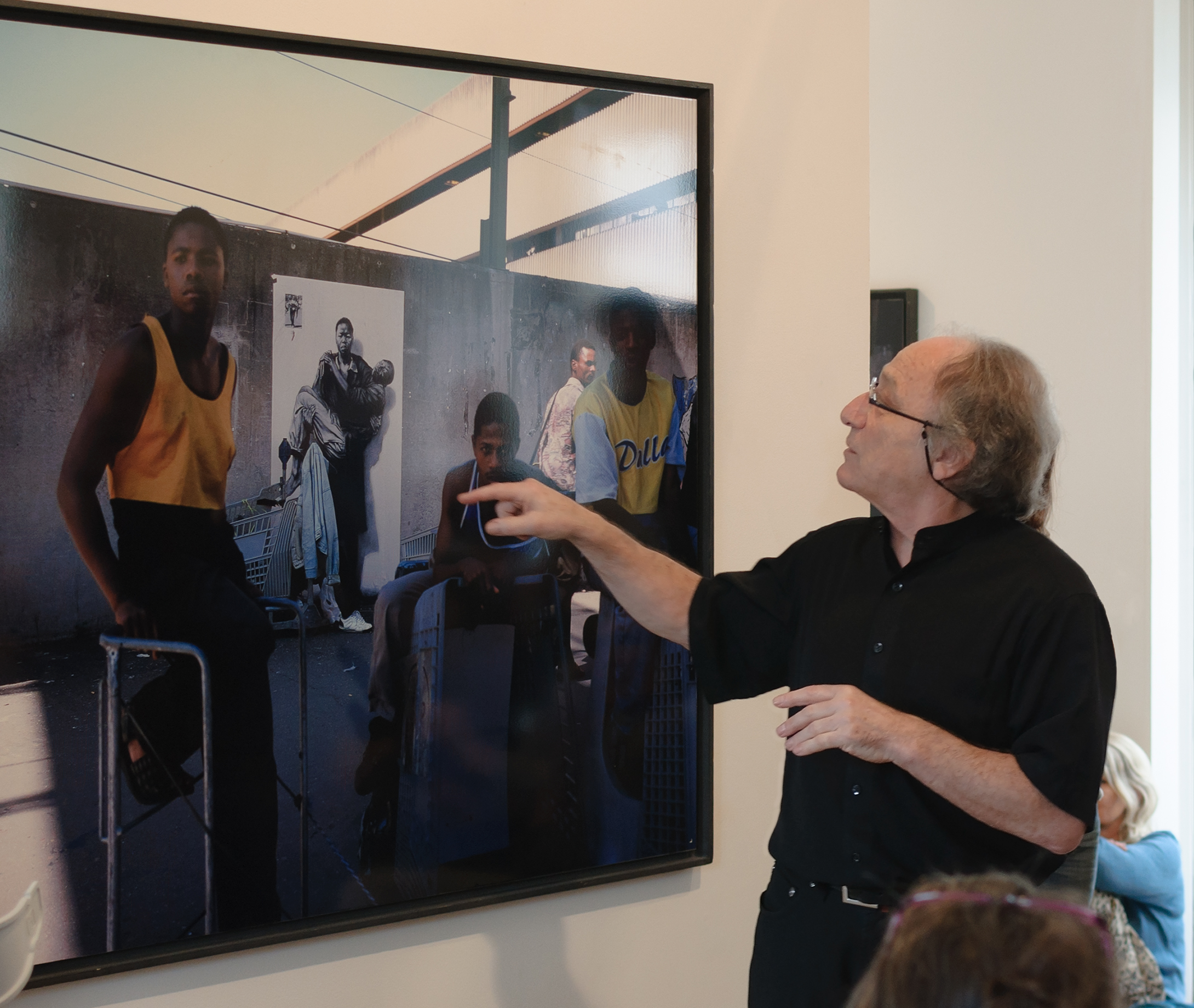 Ernest Pignon-Ernest, at the Maison des Arts ('House of Arts') in Malakoff, Hauts-de-Seine, France, in March 2014.